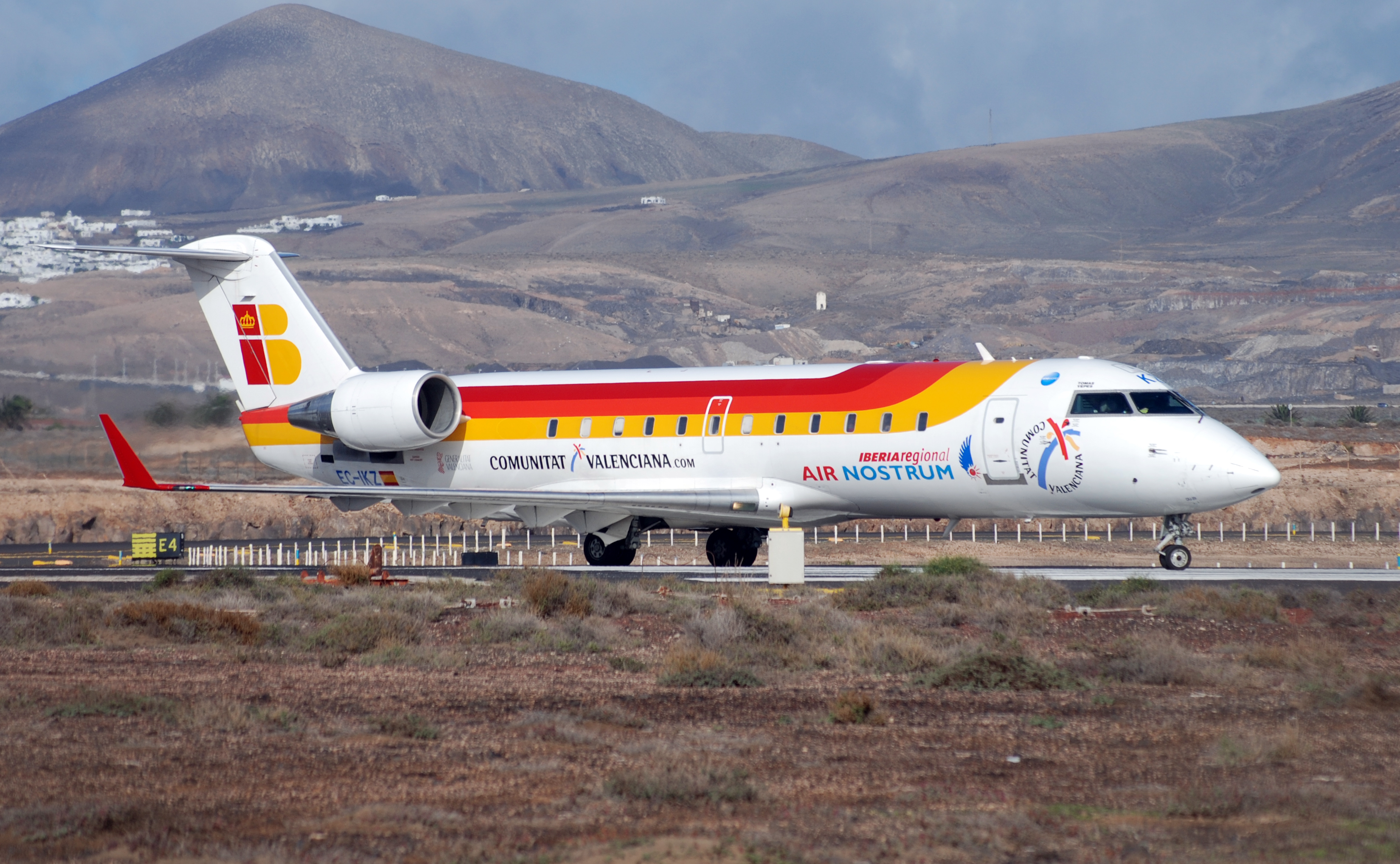 at the 03 end,Lanzarote,Boxing Day 2009